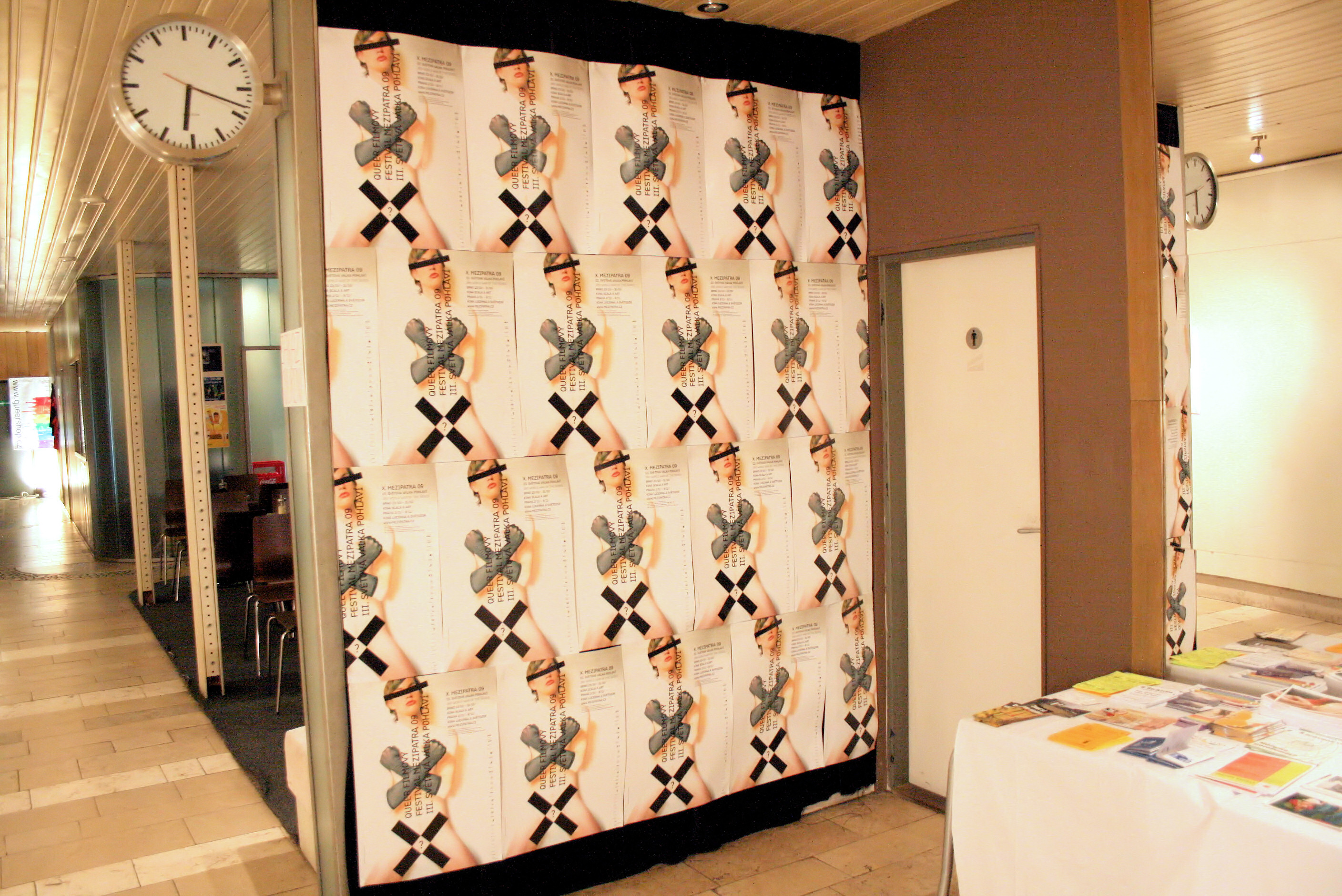 Posters of the 10th Queer Film Festival Mezipatra 2009, Cinema Art, Brno, Czech Republic.